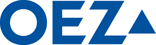 oez